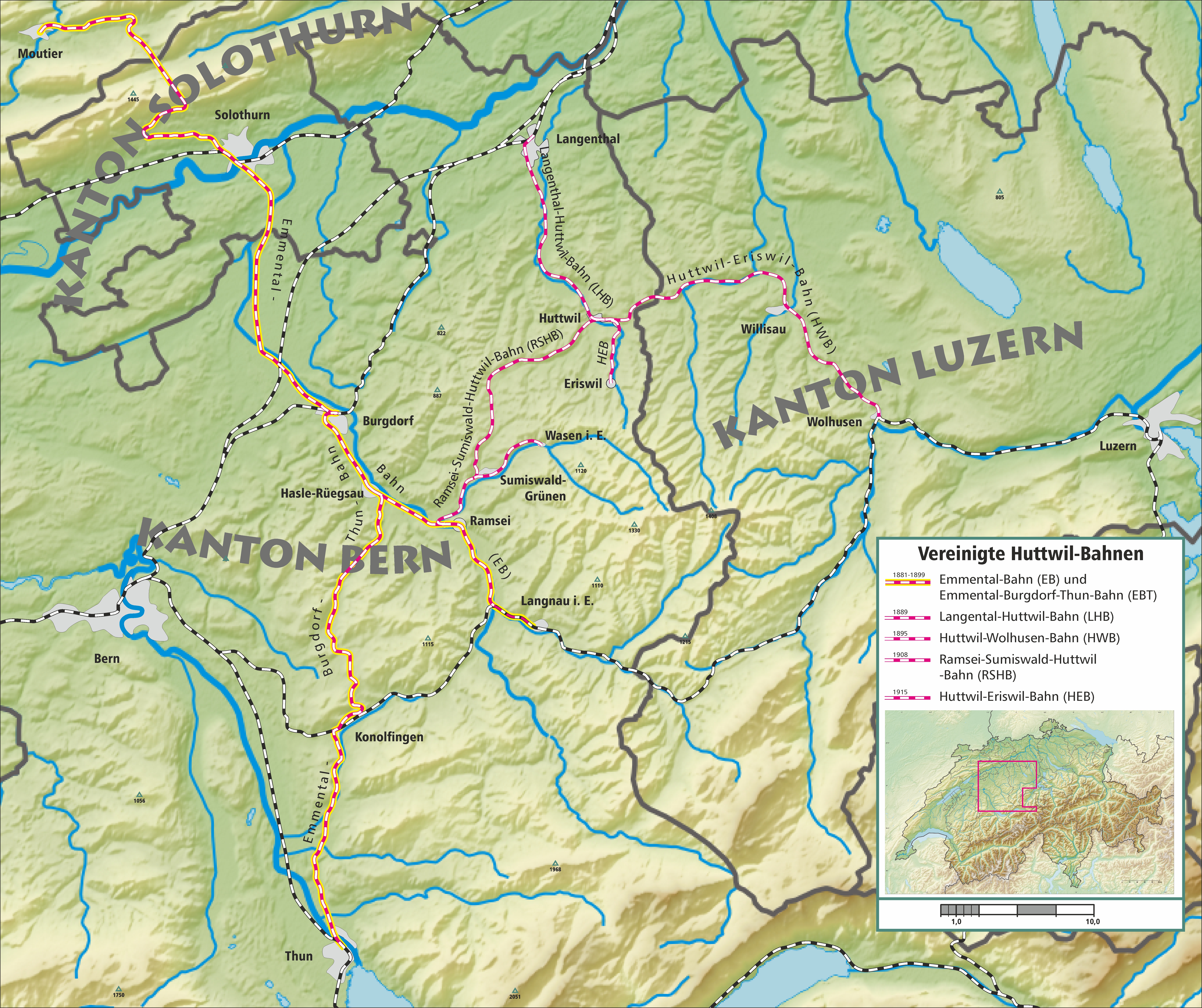 map of Vereinigte Huttwil-Bahnen, Switzerland